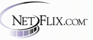 The original Netflix logo used from 1997 to 2000.